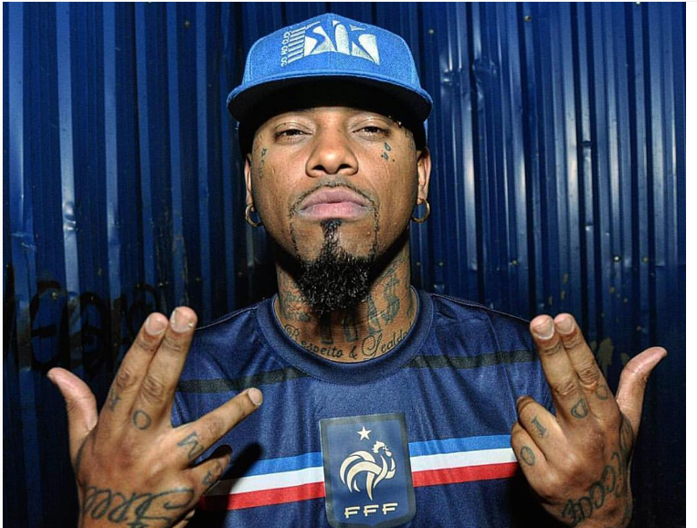 Nga king